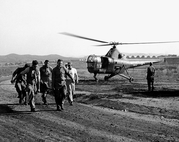 U.S. Navy Corpsmen Herald B. Williams, James E. Carr and William N. Shipworth help carry a wounded man from a U.S. Marine Corps Sikorsky HO3S-1 evacuation helicopter to a hospital in Korea. The helicopter is from Marine Observation Squadron VMO-6.The original photo is dated 3 October 1950, in which case it was probably taken during U.S. Marine Corps operations in the vicinity of Seoul, Korea. Note the extensive "Quonset" hut facilities in the distance.